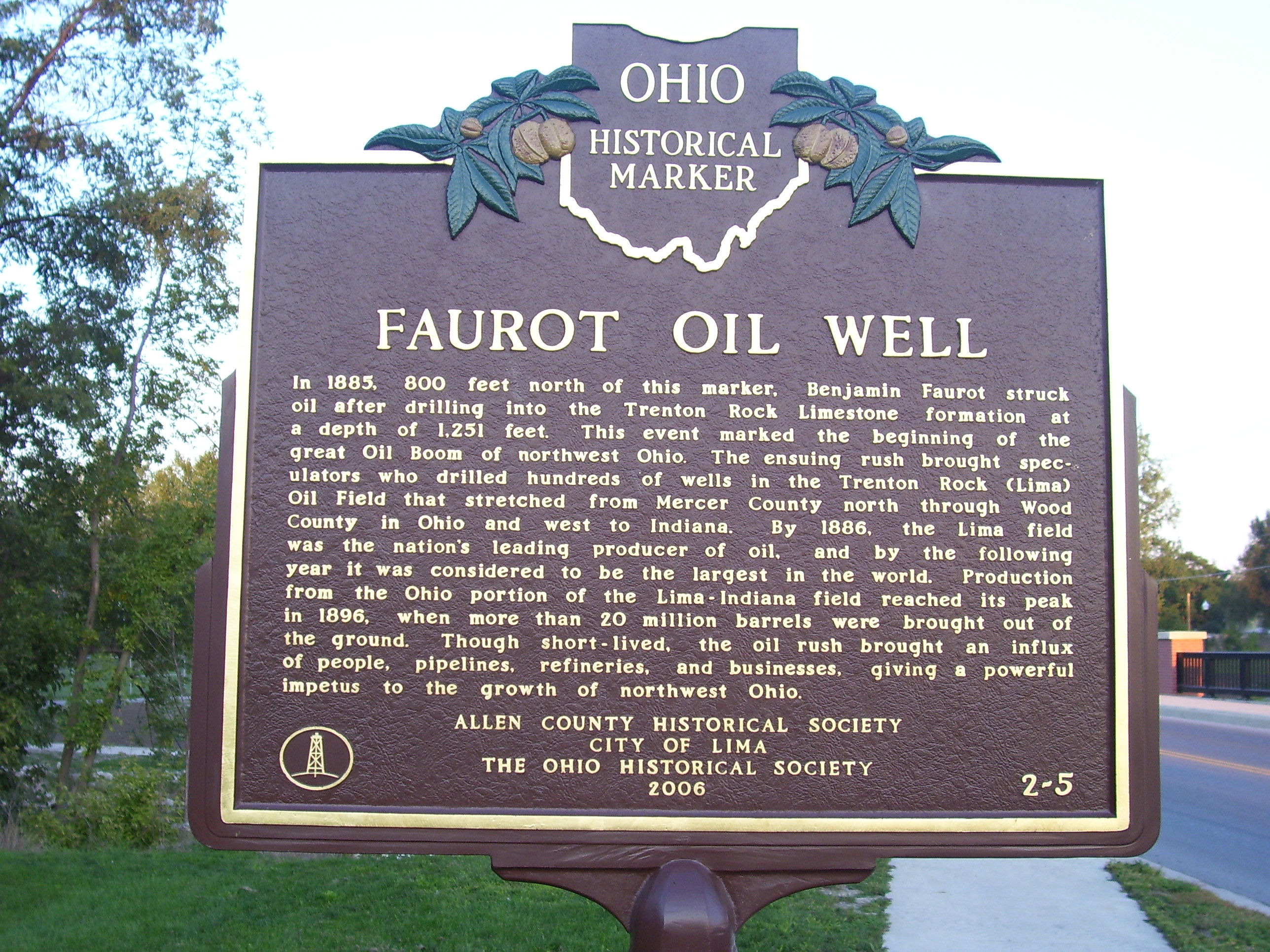 Sign outlining Lima, Ohio's oil history